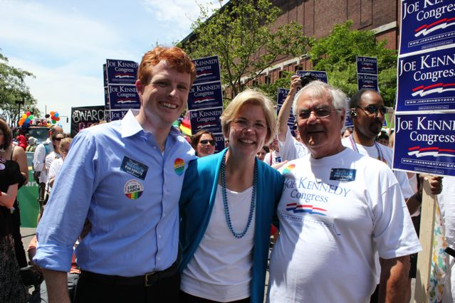 Joseph P. Kennedy III, Elizabeth Warren, and Barney Frank at the 2012 Boston Pride Parade